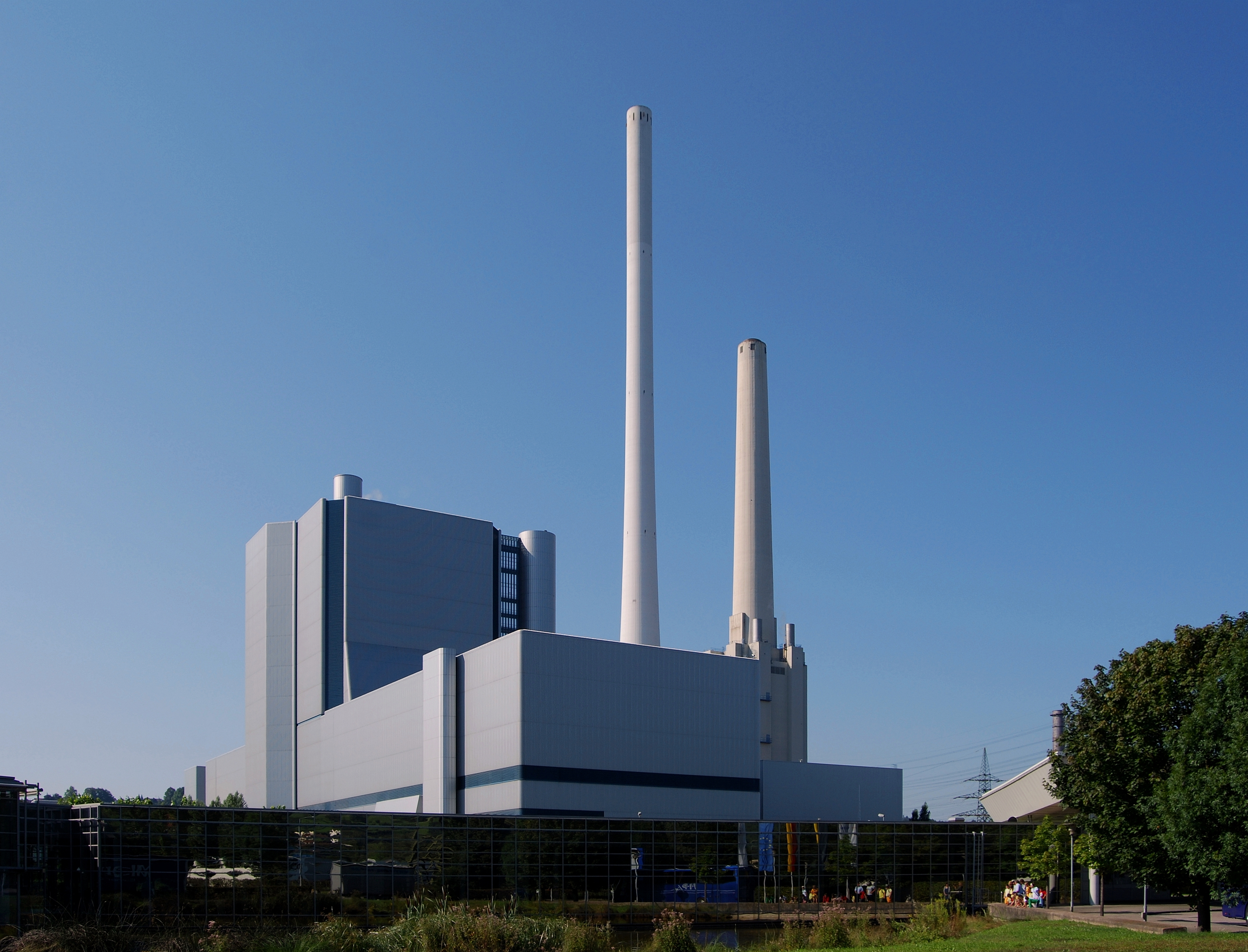 Unit 2 of Altbach Power Station